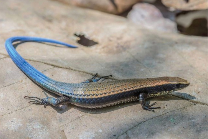 Reptilian diversity. Examples of reptiles recorded in the Serra da Mocidade mountain range